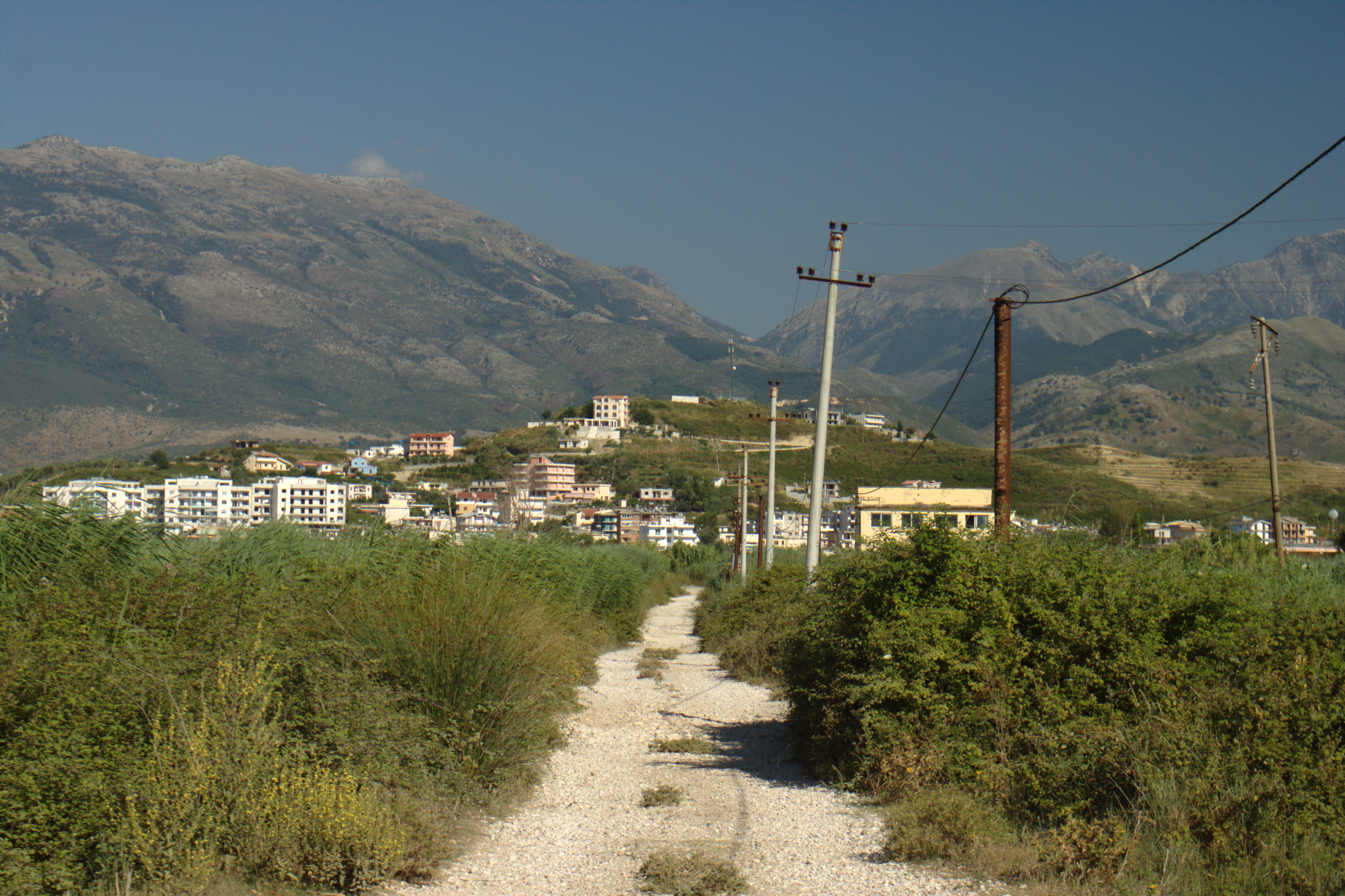 View of the town of Orikum, Albania